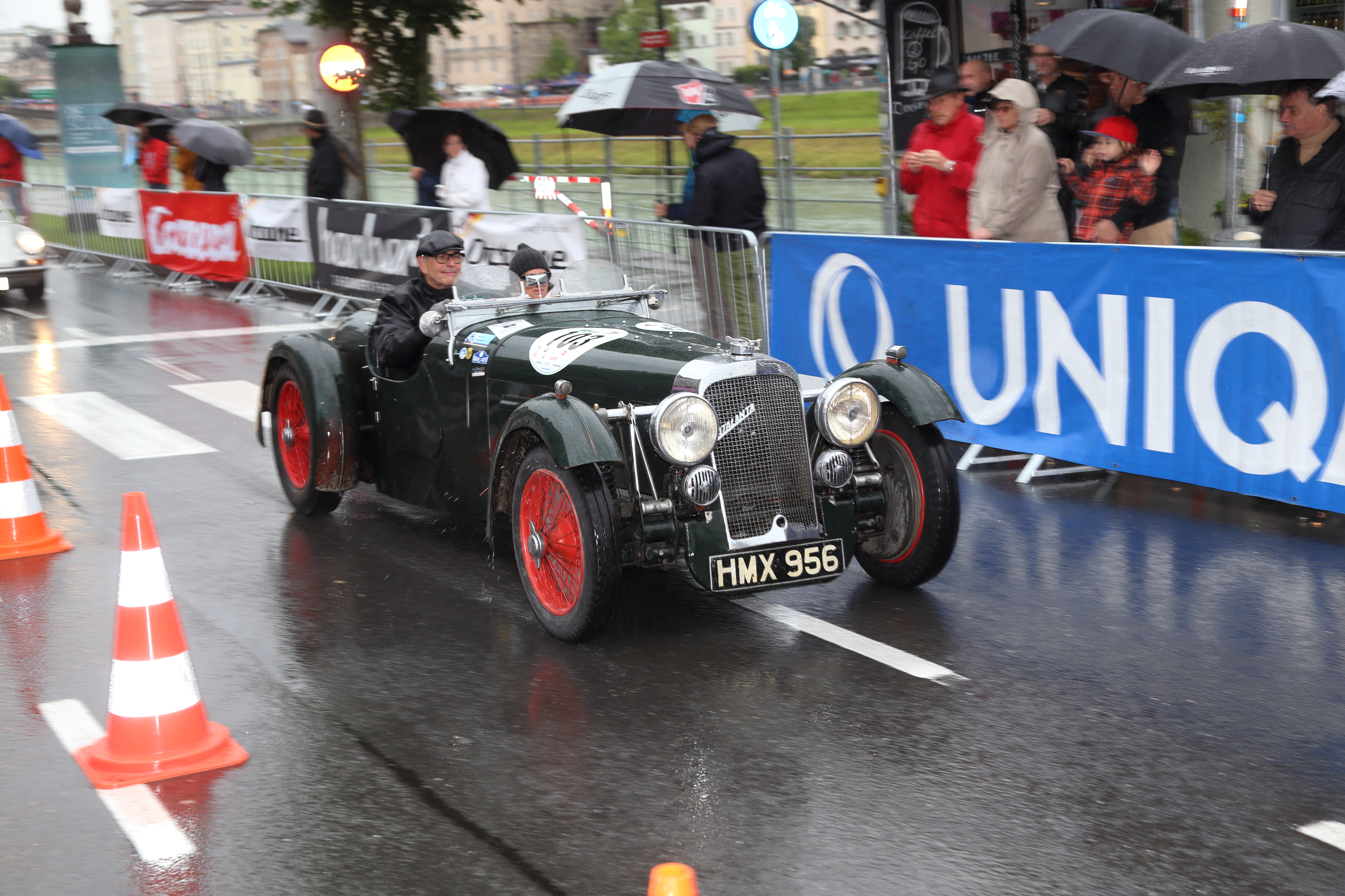 Gaisbergrennen 2013; 1939 Atalanta 2 litre Roadster ex Midge Wiltby team car; body by Abbott of Farnham